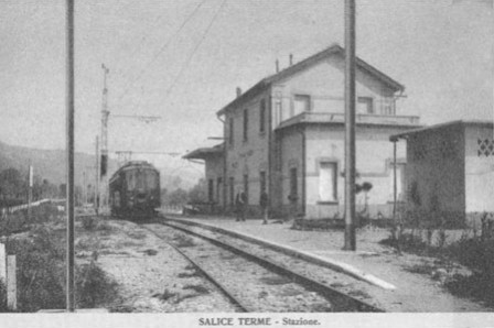 Salice Terme railway station